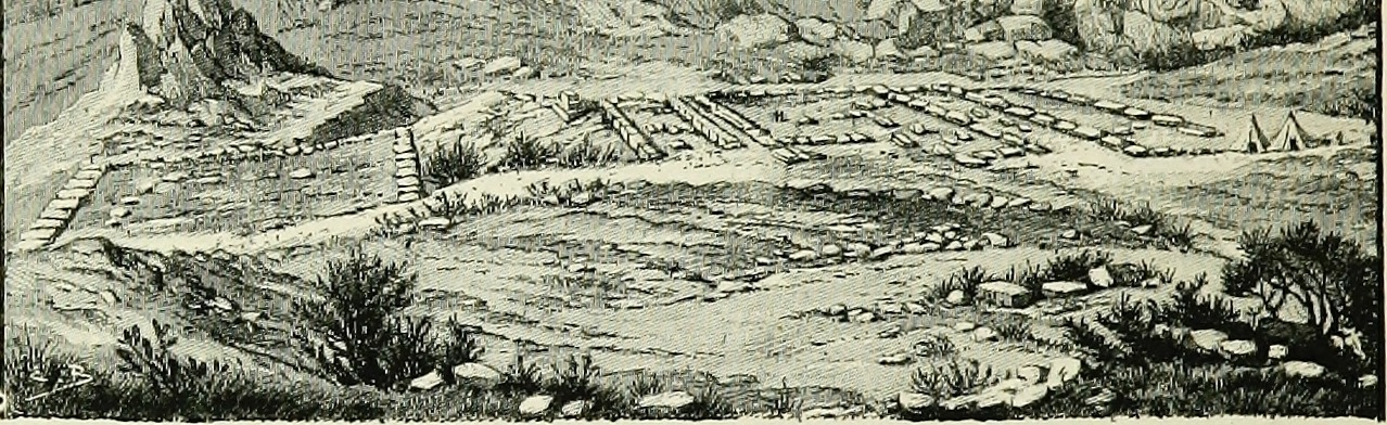 Title: History of Egypt, Chaldea, Syria, Babylonia and Assyria Year: 1903 (1900s) Authors: Maspero, G. (Gaston), 1846-1916 Sayce, A. H. (Archibald Henry), 1845-1933 McClure, M. L., d. 1918 Subjects: Civilization, Ancient History, Ancient Publisher: London : Grolier Society Text Appearing Before Image: ' Text Appearing After Image: THE KUINS or PTEKIA. in places, besides the remains of a palace built of enormousblocks of almost rough-hewn limestone. The town wasdefended by wide ramparts, and also by two fortressesperched upon enormous masses of rock, while a fewthousand yards to the east of the city, on the right bankof the torrent, three converging ravines concealed thesanctuary of one of those mysterious oracles whose fameattracted worshippers from far and wide during the annual 1 Drawn by Boudier, from Charles Texier. THE SANCTUARY OP PTERIA 397